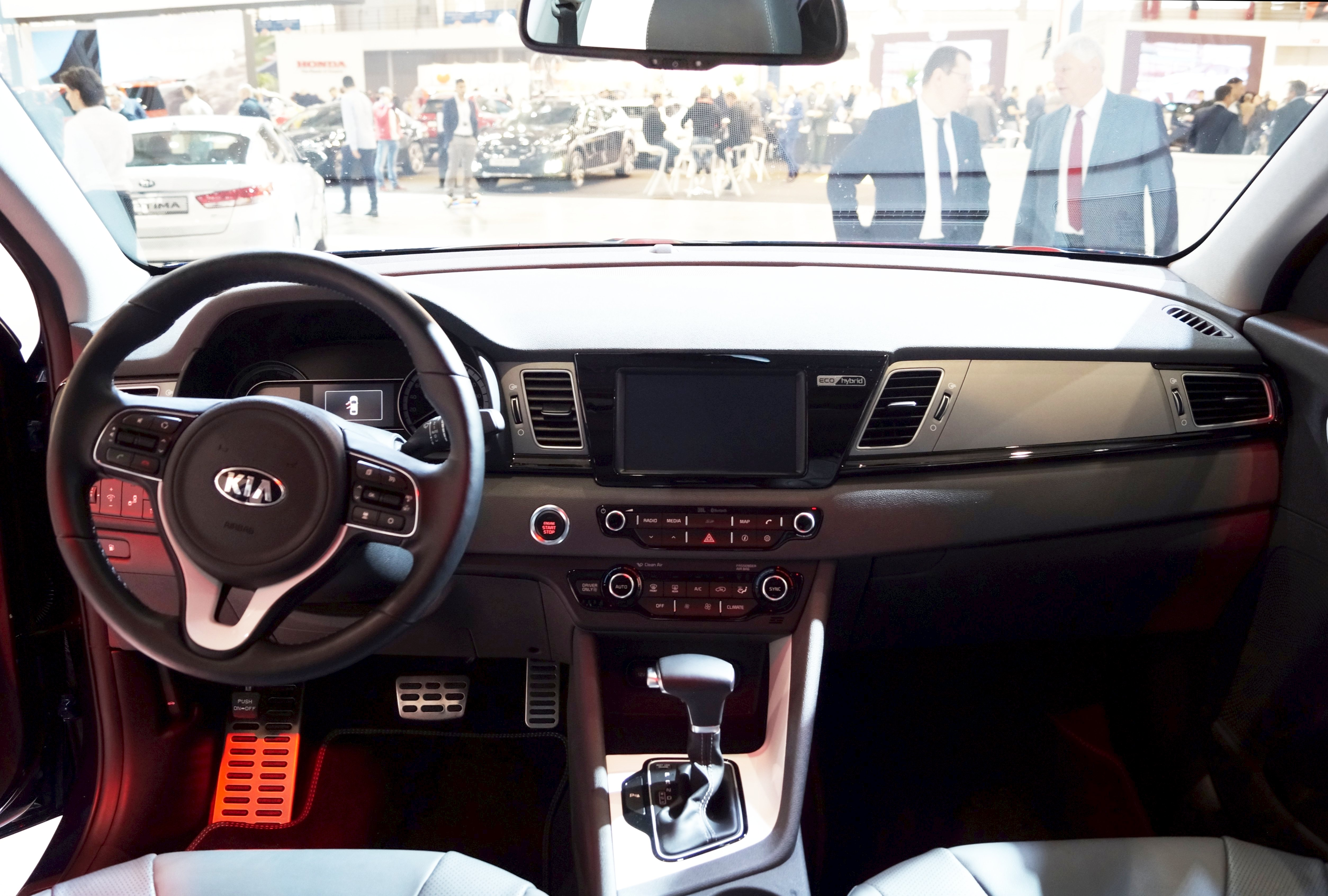 The making of this document was supported by Wikimedia Polska Association, within Wikigrant no. WG 2016-10. English | polski | +/− Wnętrze Kii Niro na Motor Show Poznań 2016